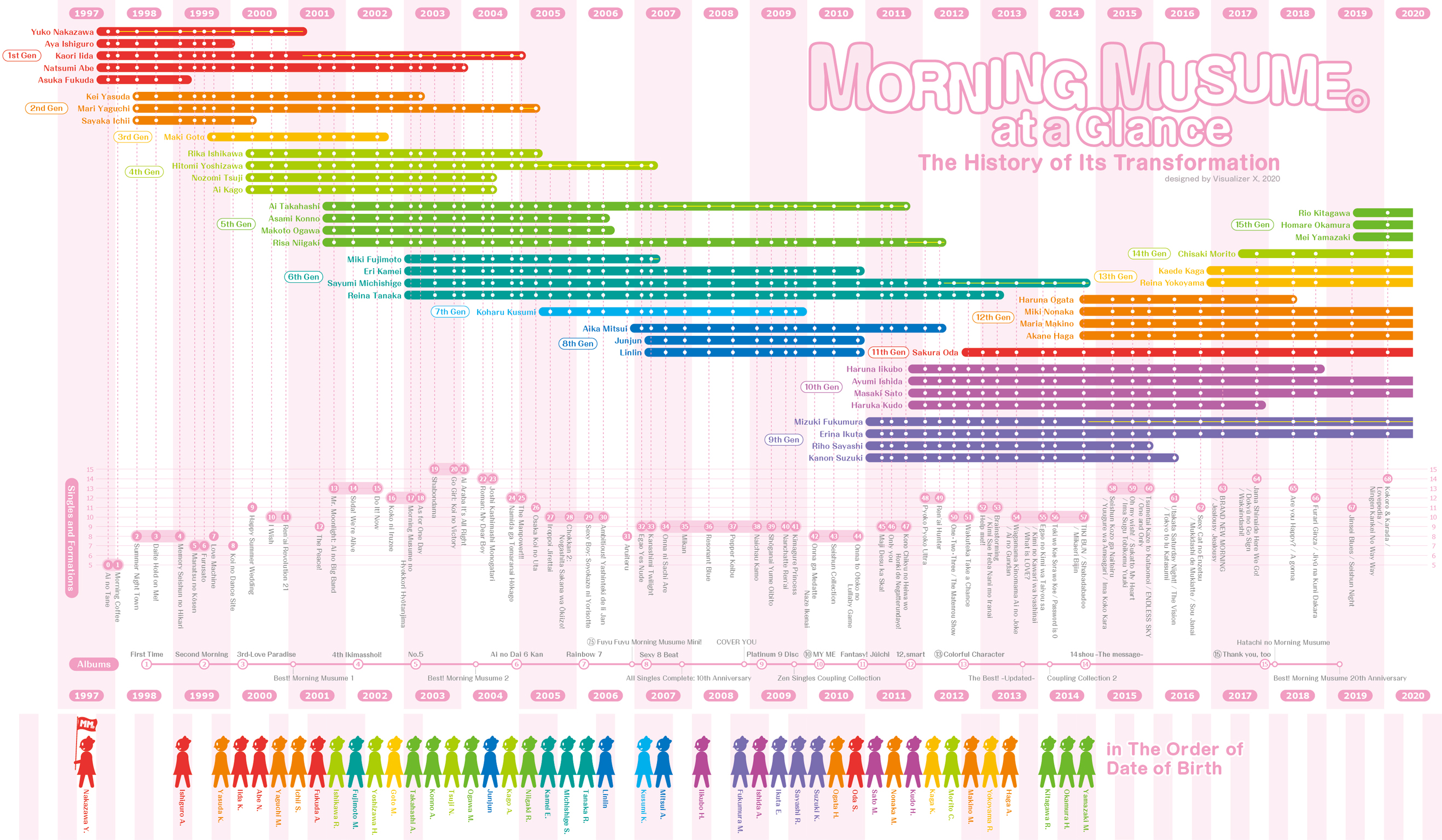 Morning Musume group composition at a glance, English version. This is my own work and anyone who loves Morning Musume may use this file under the conditions of the Creative Commons.